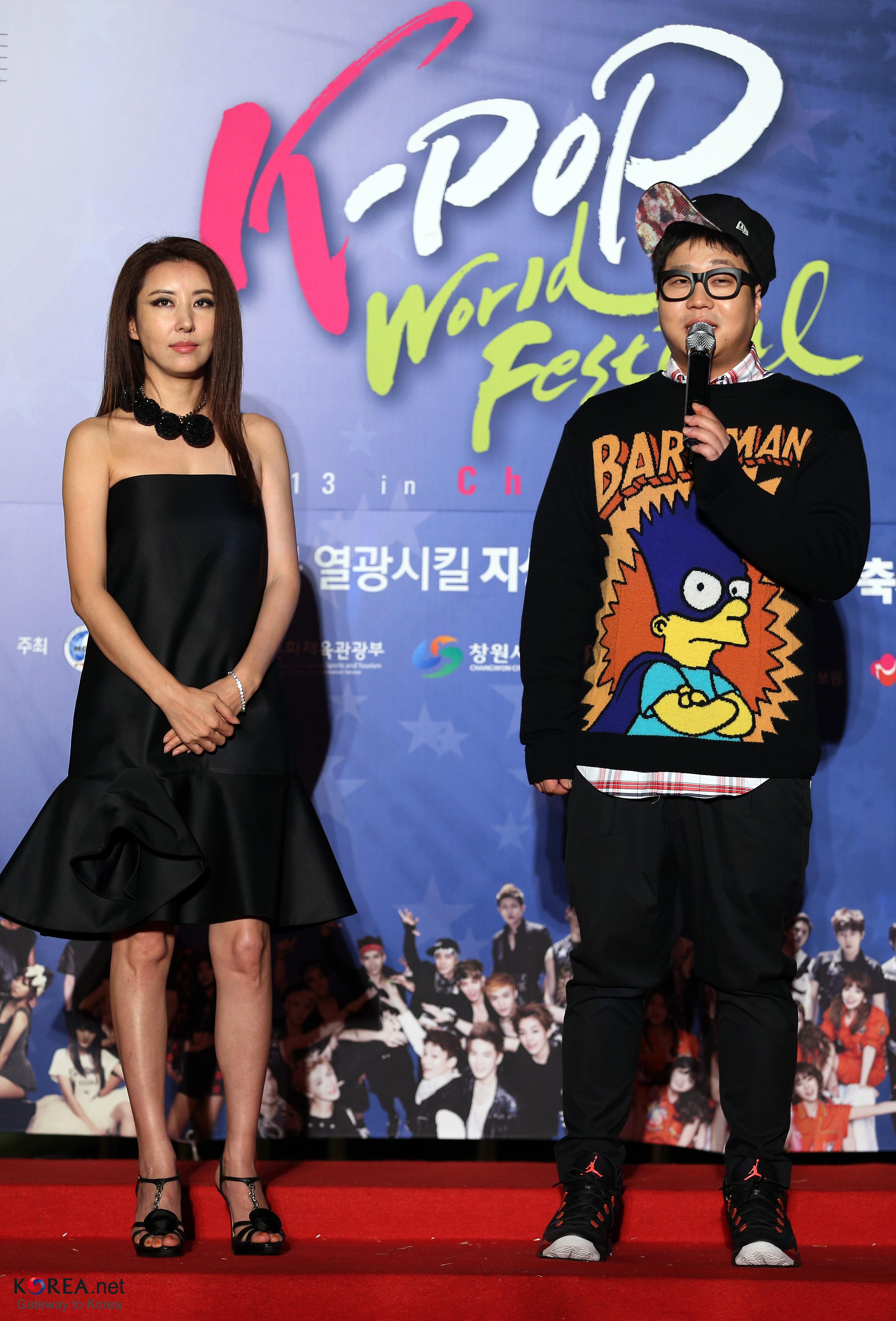 2013 K-POP World Festival in Changwon